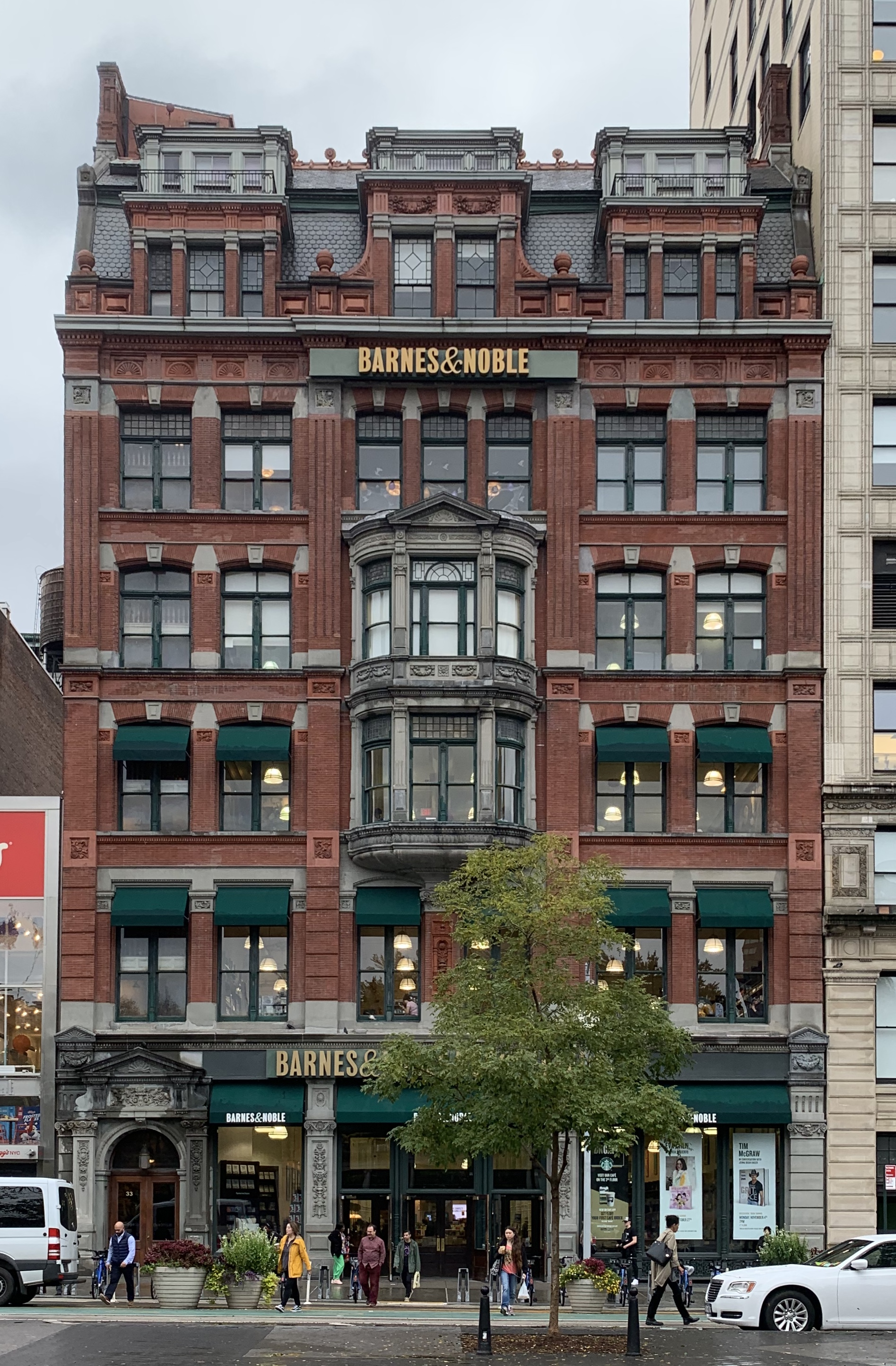 Front view of the Century Building in 2019, currently occupied by Barnes & Noble